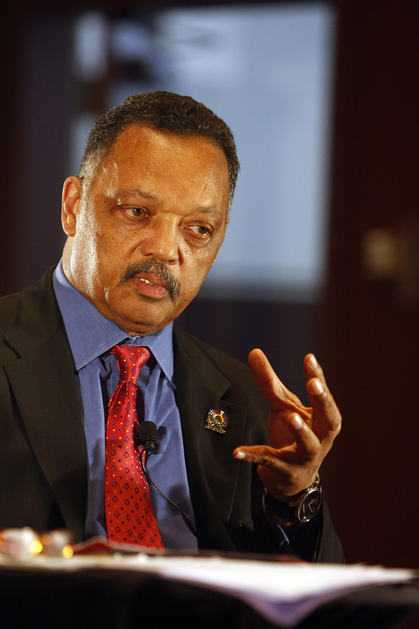 Reverend Jesse Jackson Sr. discusses funding higher education in the Max Palevsky Cinema in Ida Noyes.